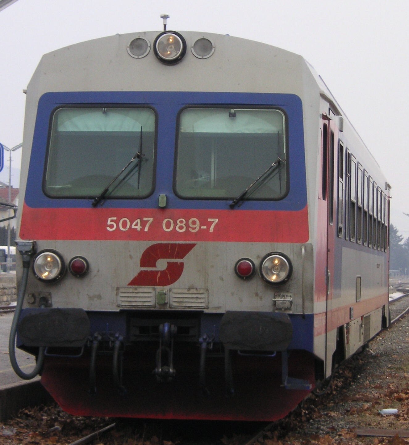 de: ÖBB 5047 089-7 in Eisenstadt en: ÖBB 5047 089-7 in Eisenstadt, Austria. A curious detail about the rail service to Eisenstadt is that although it is the capital city of Burgenland it can only be reached by a single-track unelectrified railway line.